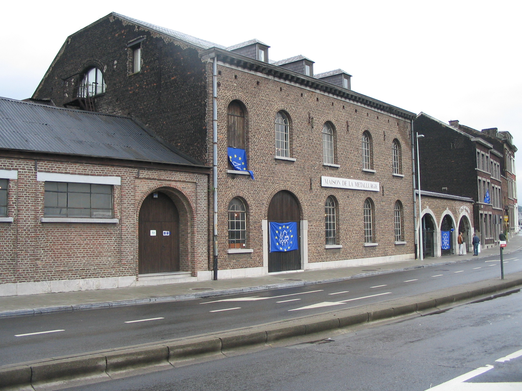 Metallurgy & industry house (museum in Liege, Belgium)